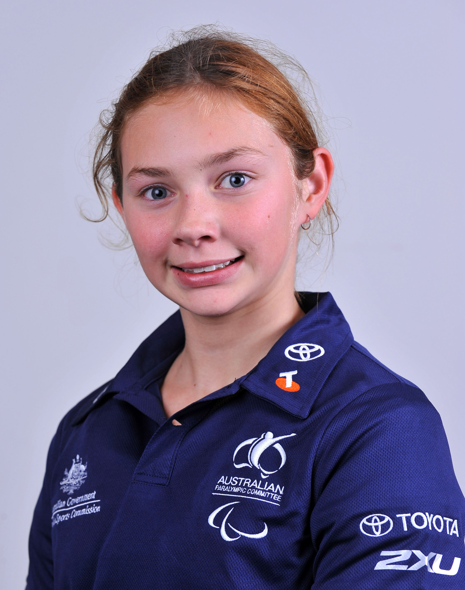 Portrait of Australian swimmer Maddison Elliott, 2012 Australian Paralympic (shadow) Team athlete